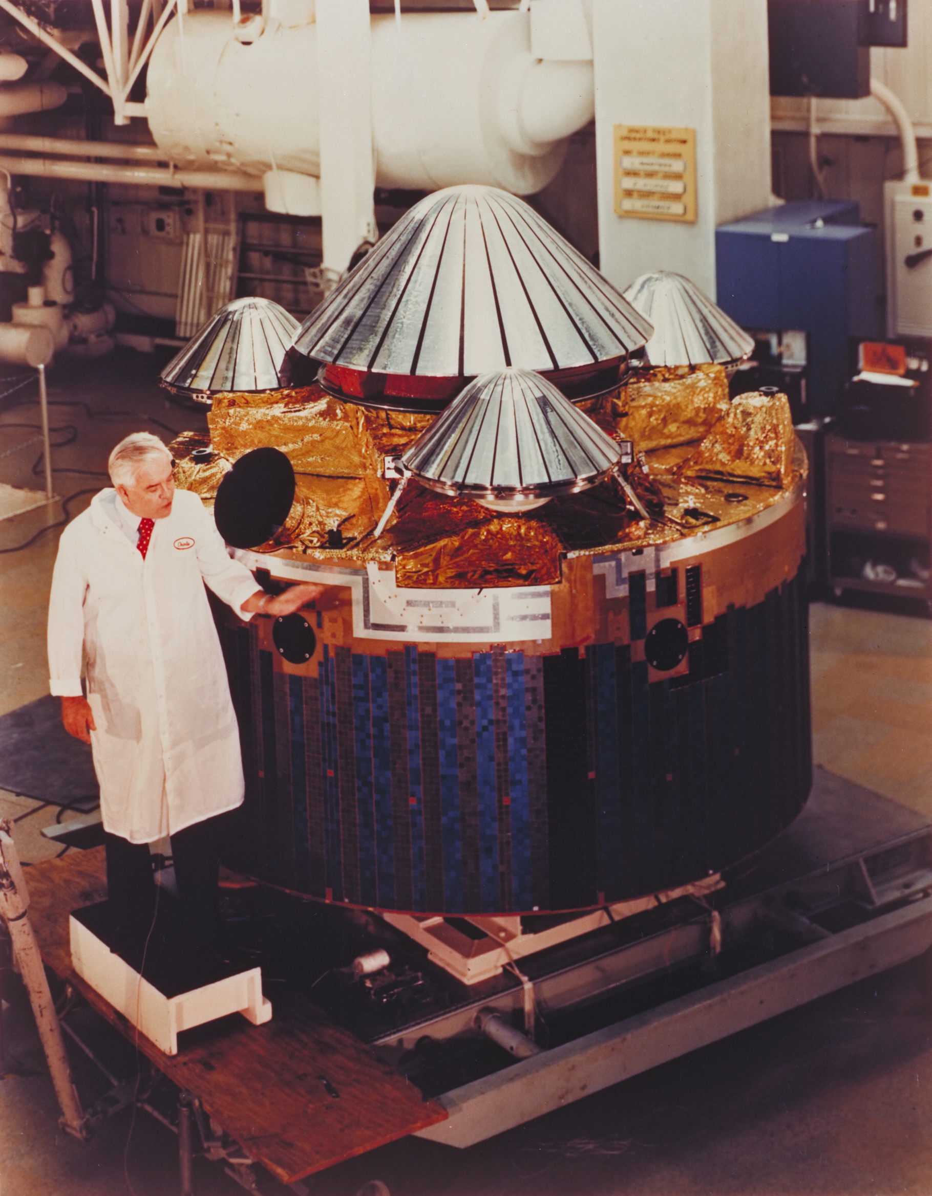 Charlie Hall inspects the Pioneer Venus multiprobe at Hughes Aircraft Co. in Dec. 1976